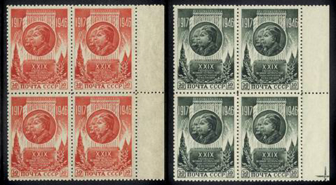 Stamps of the USSR. 29th anniversary of October Revolution, 1946, 30 k., CPA #1095-1096.